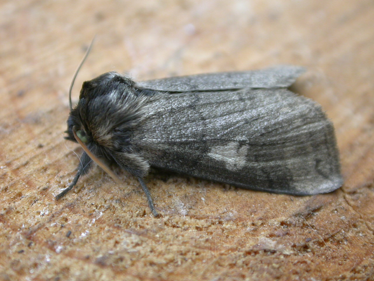 Tethea or, to MV light, Hellerup, Denmark, 13 June 2003